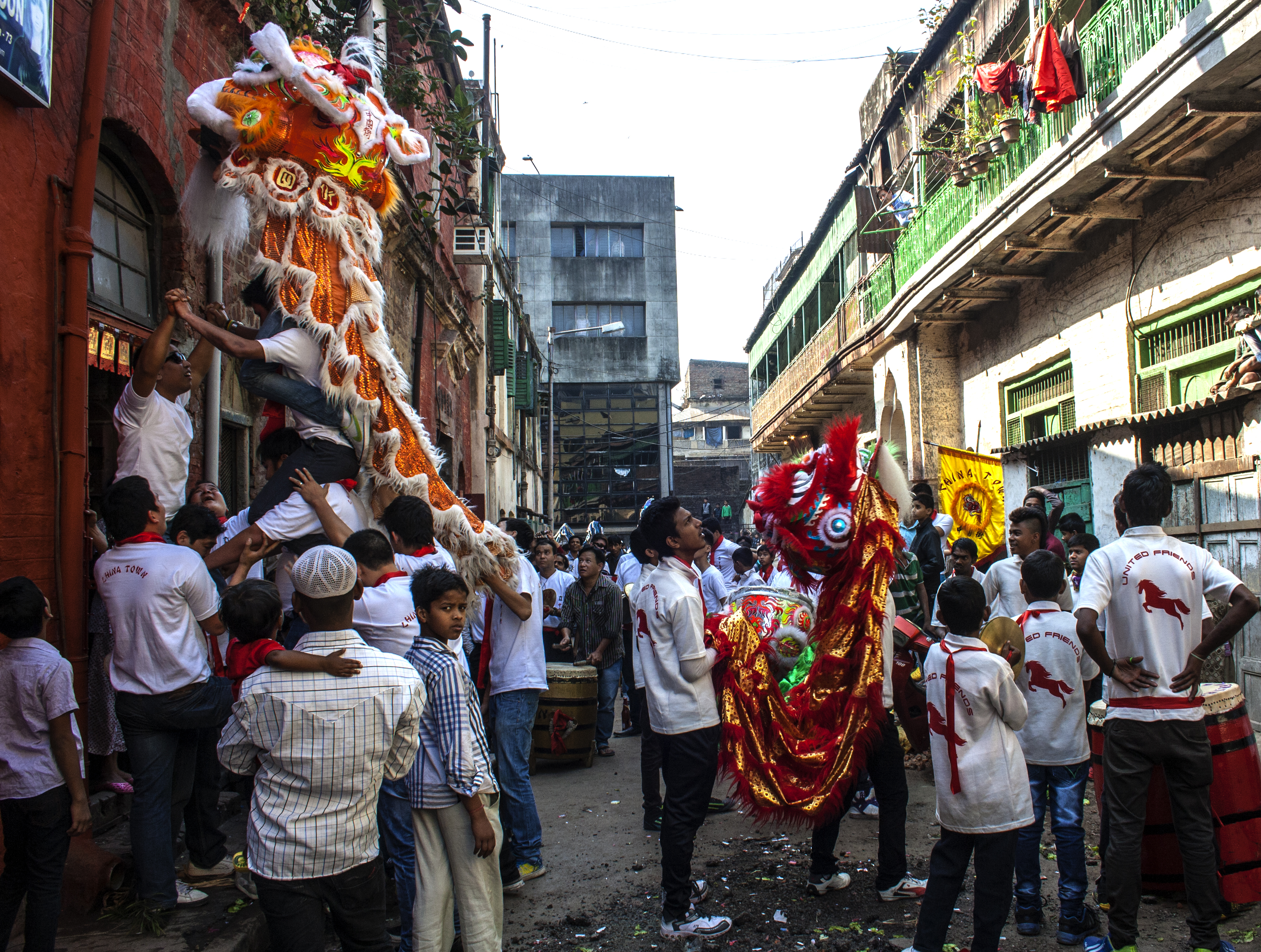 United Friends Group performing Dragon Dance during Chinese New Year 2014 celebration in Kolkata Old china town area.